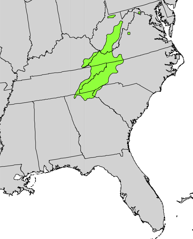 Range map of Magnolia fraseri